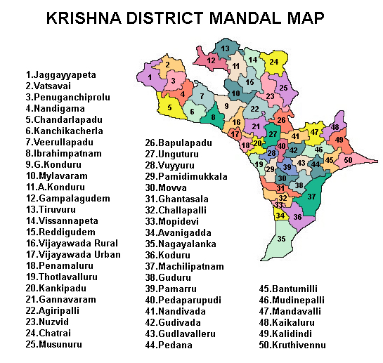 Krishna district mandal map